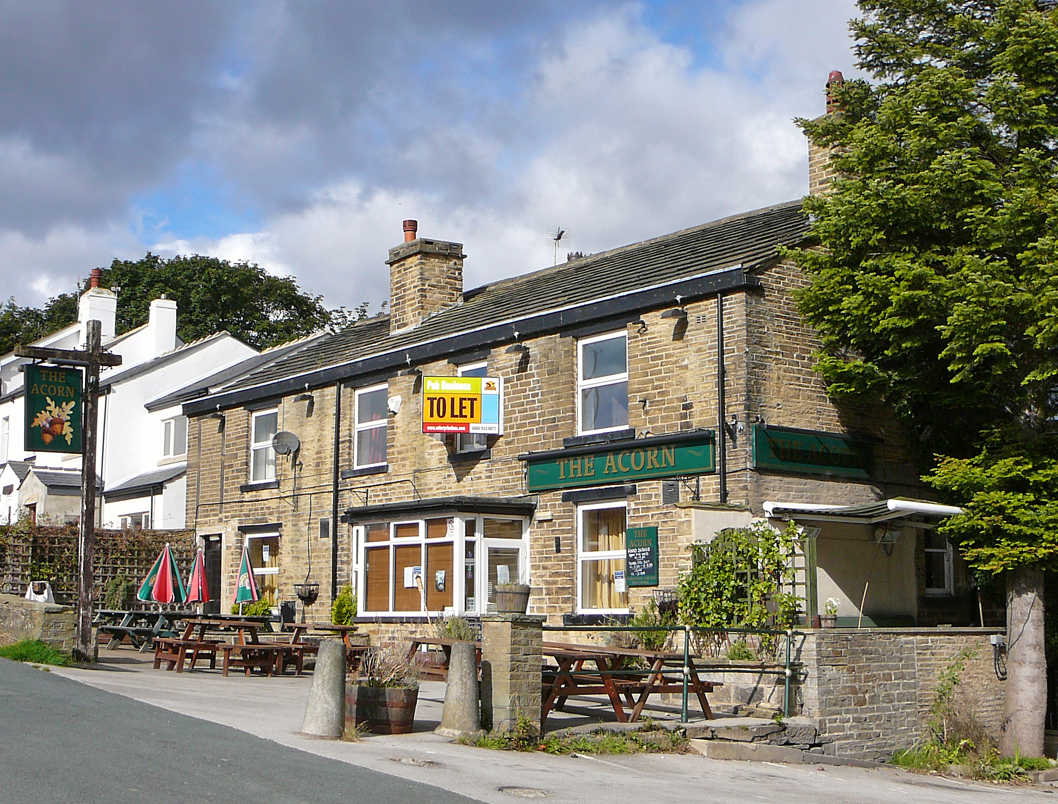 The Acorn public house in Eldwick, Bradford, West Yorkshire. Taken on Saturday the 25th of September 2010.